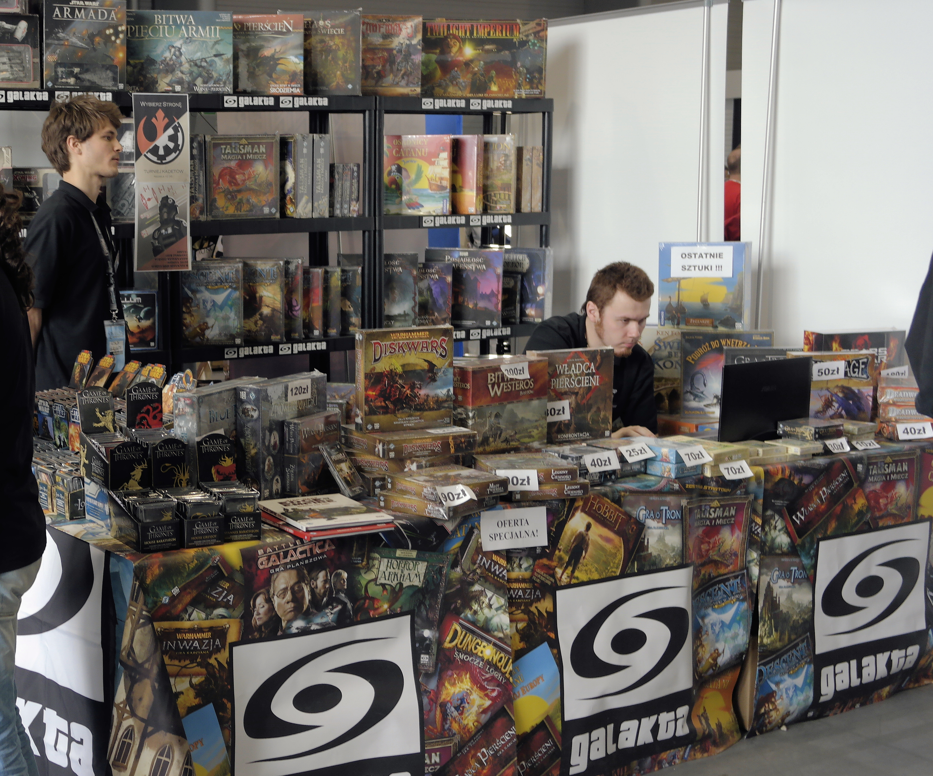 Galakta - game publisher, Pyrkon, Poznań